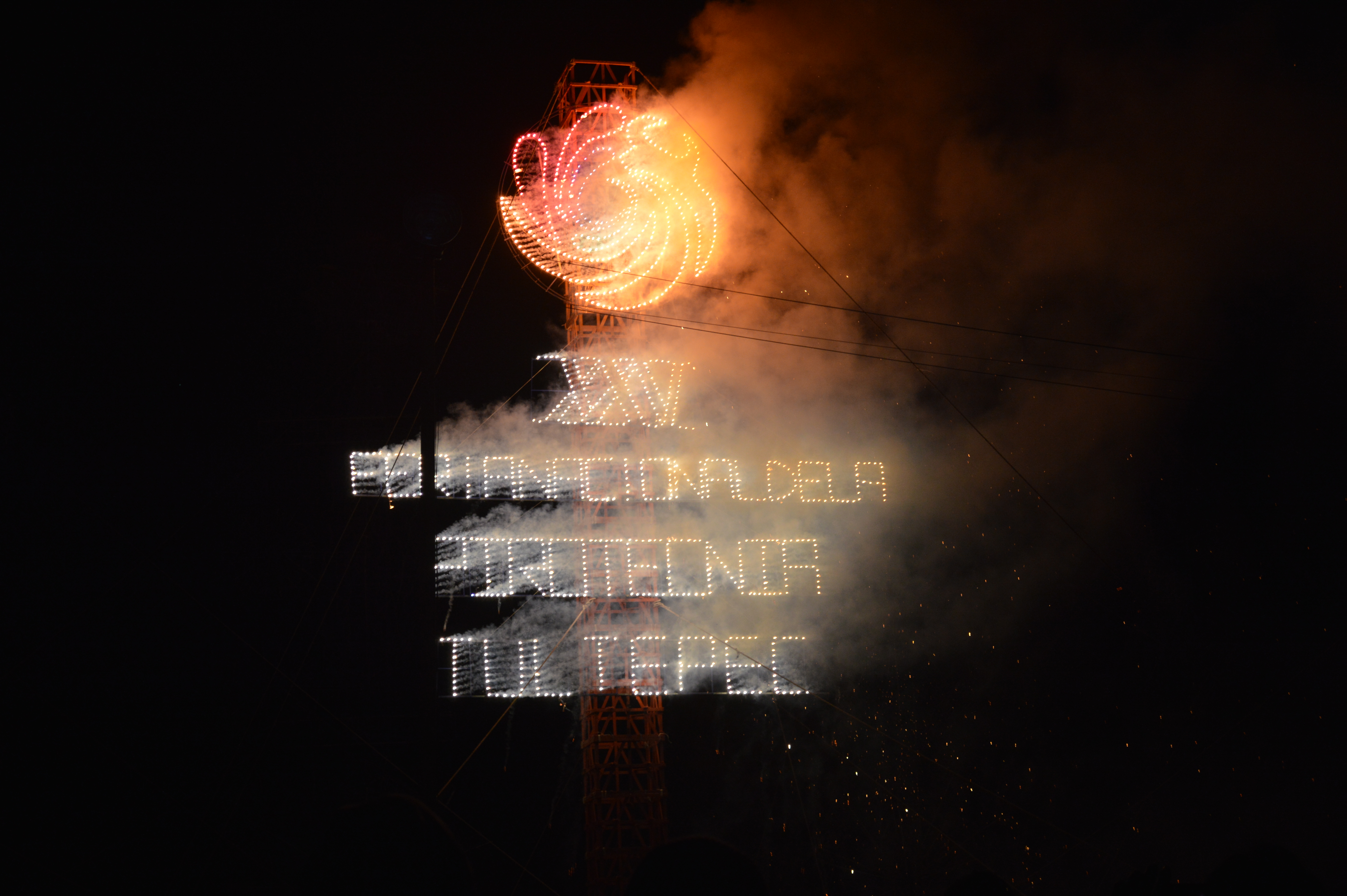 One of the fireworks castles at the Feria Nacional de la Pirotecnia Tultepec 2013